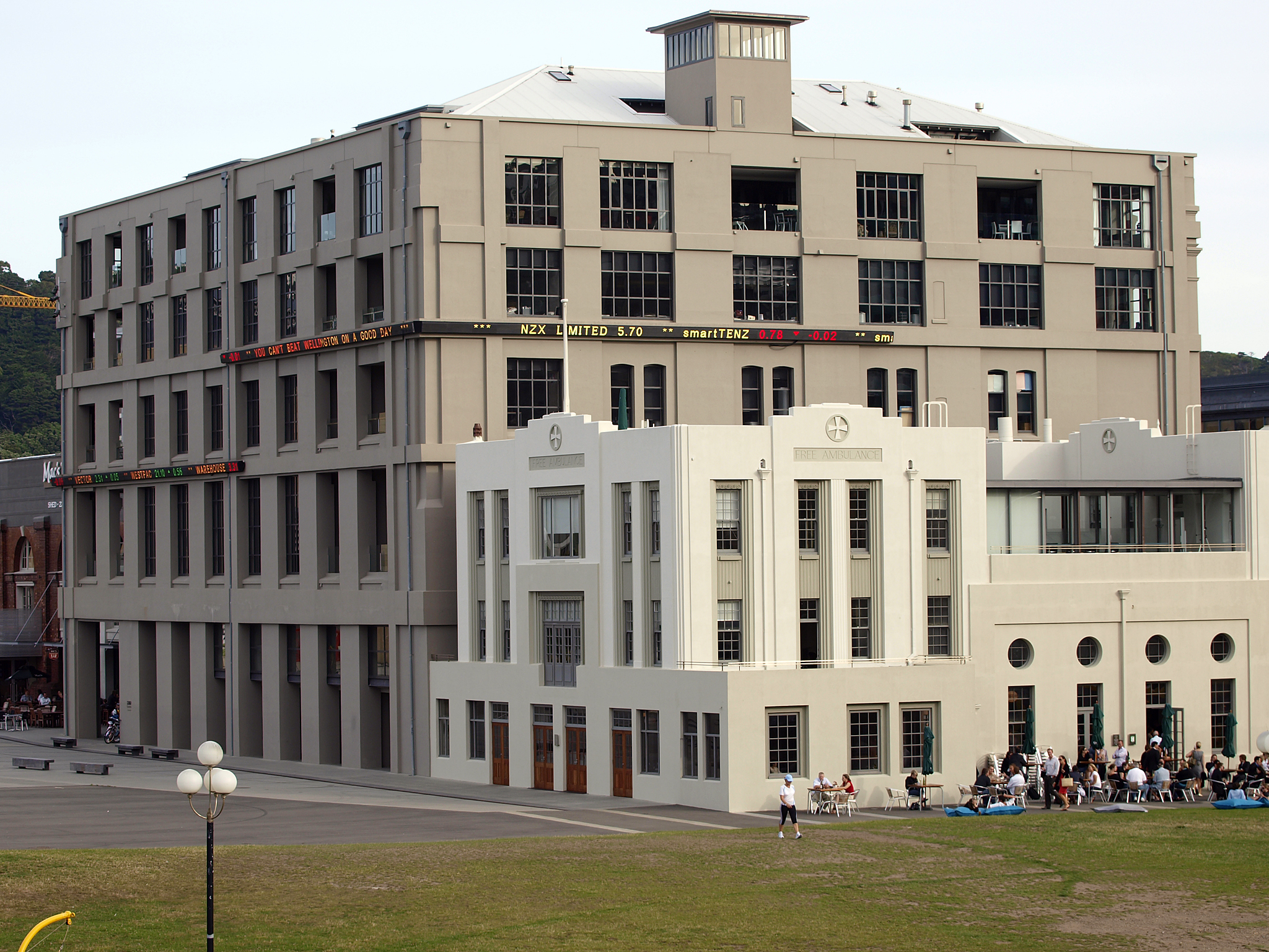 New Zealand Exchange (NZX), Wellington, New Zealand